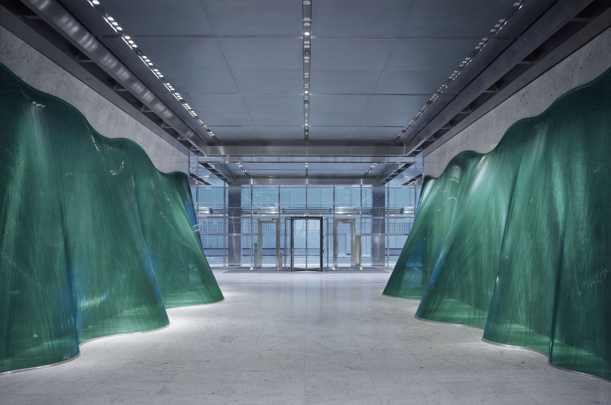 Parting of the Waves, Danny Lane, 2003, Glass, stainless steel